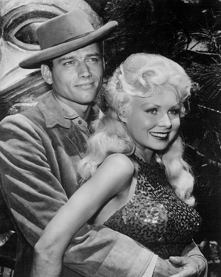 Photo of Ralph Taeger as Mike Halliday and Joi Lansing as Goldie from the television program Klondike.